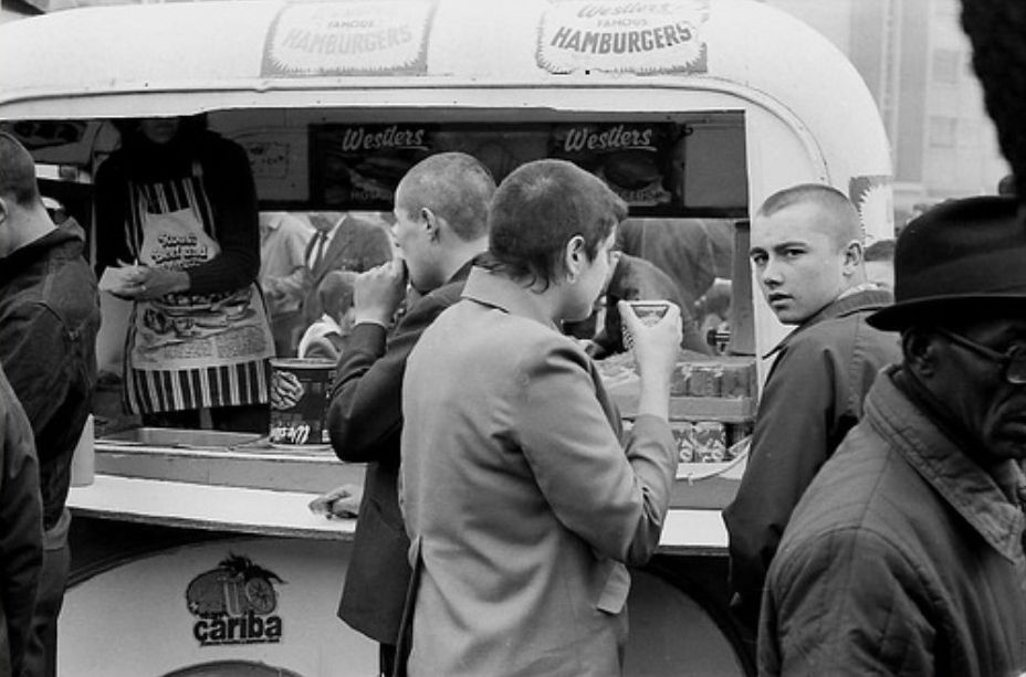 Skinheads in London City.